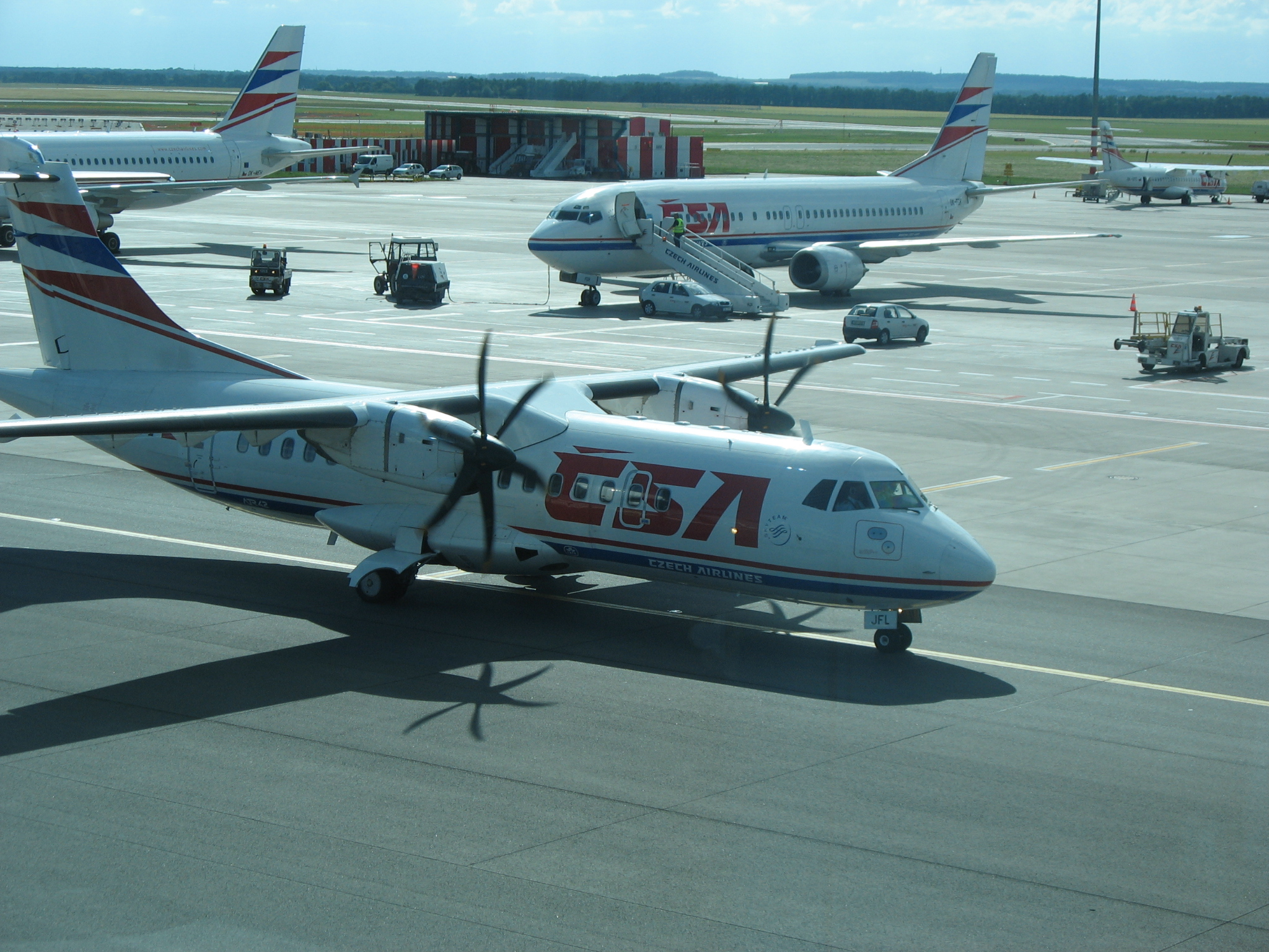 ATR 42 (OK-JFL), CSA, Ruzyne, Prague, Czech Republic